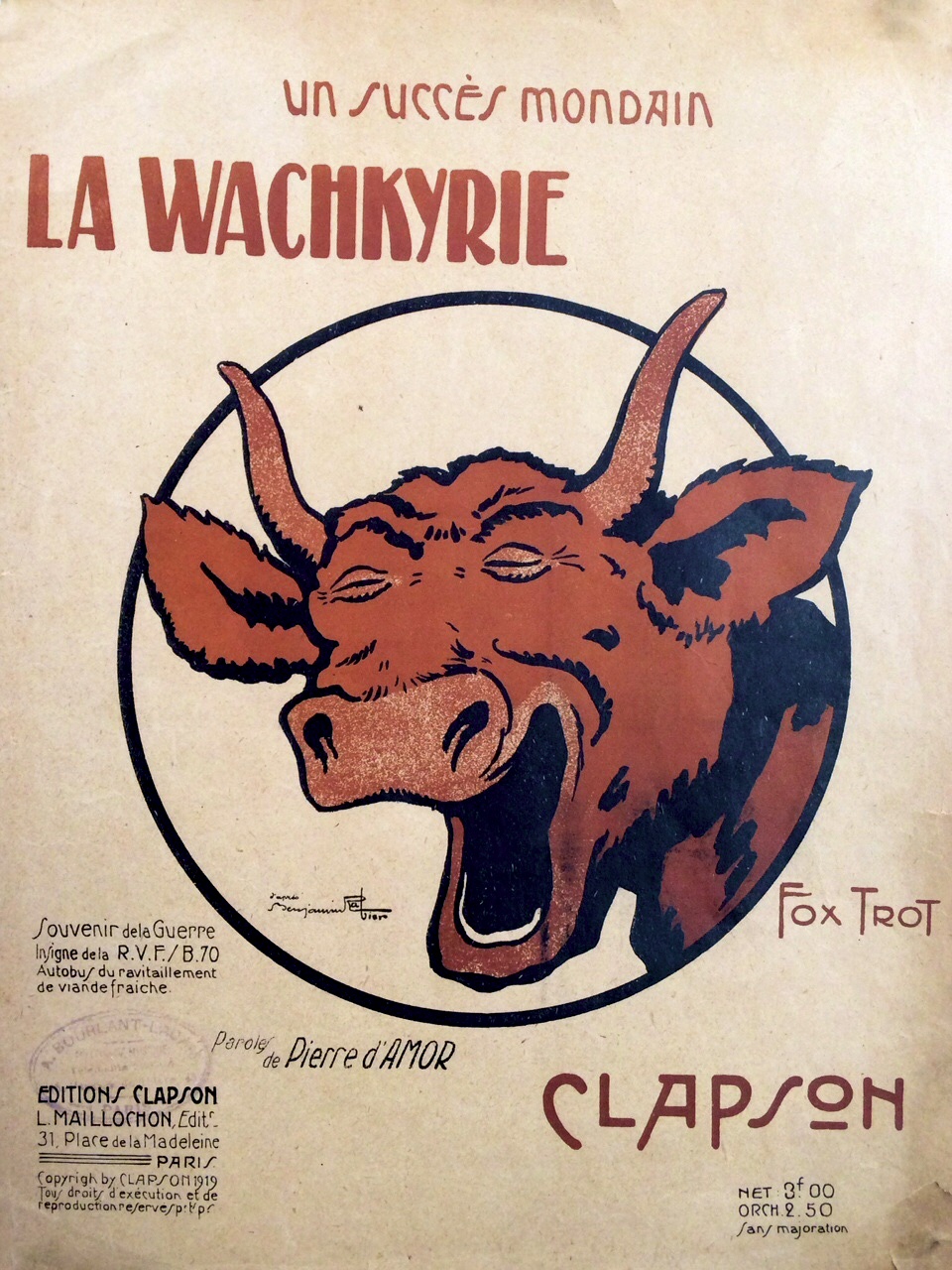 Sheet music cover after Benjamin Rabier